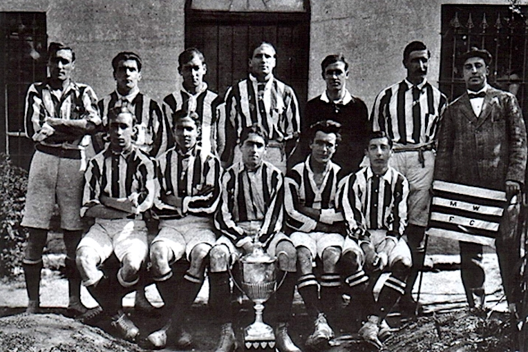 The Wanderers F.C. team of Uruguay posing with the Tie Cup trophy after winning the final v San Isidro at GEBA stadium.